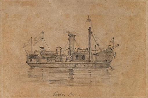 Brazilian Ironclad Lima Barros, built in England by Laird, and launched in 1865.